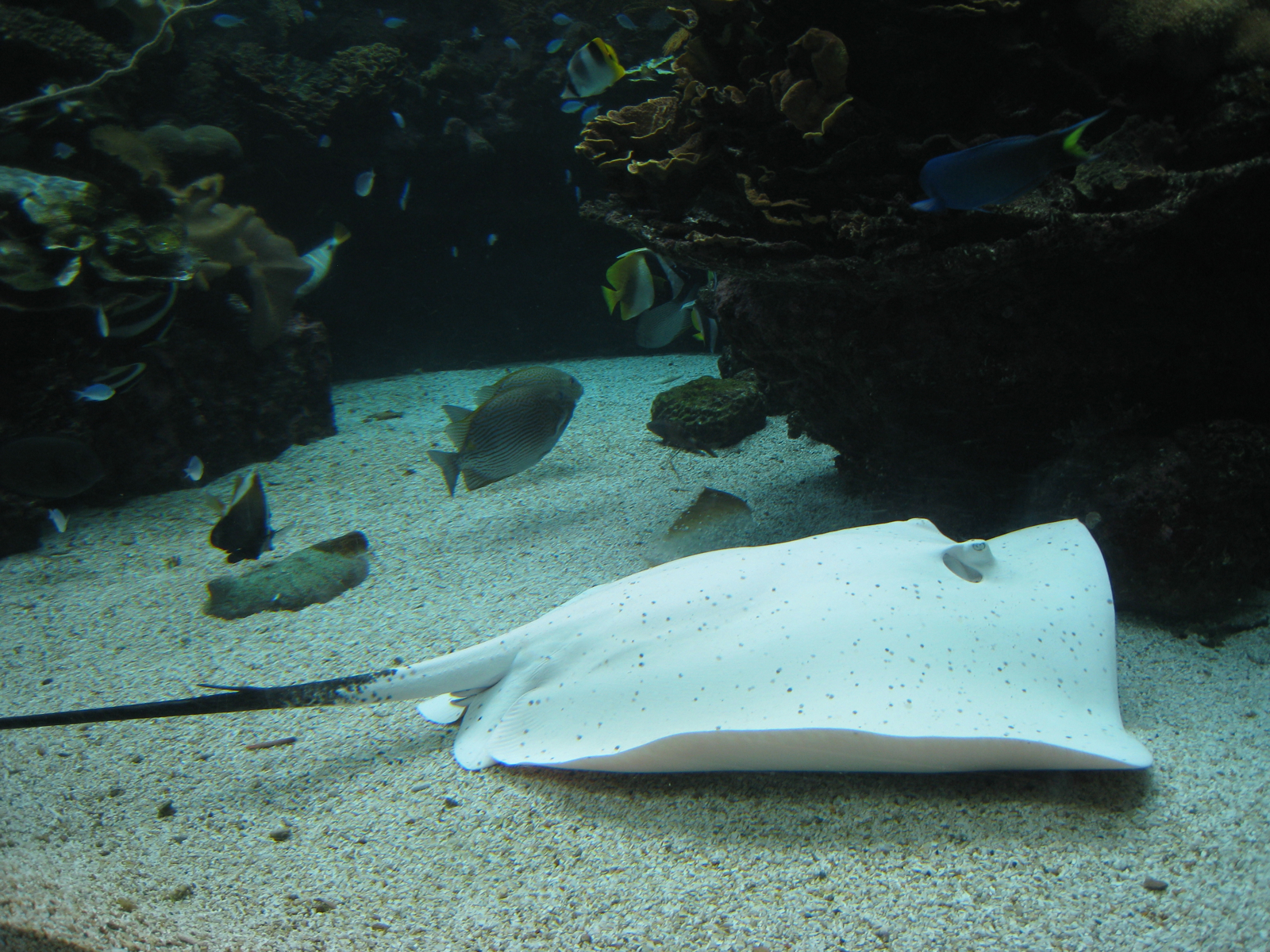 Pink whipray (Himantura fai)